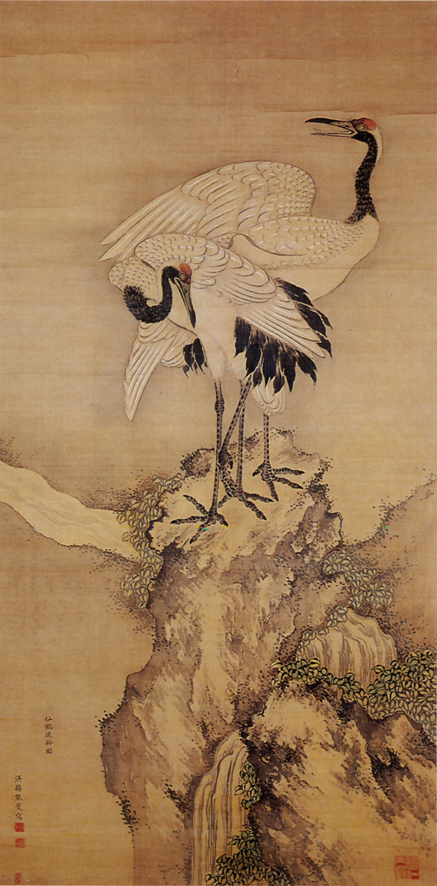 Yūhi,A pair of Cranes,A hanging scroll,Color on silk,Middle Edo period.